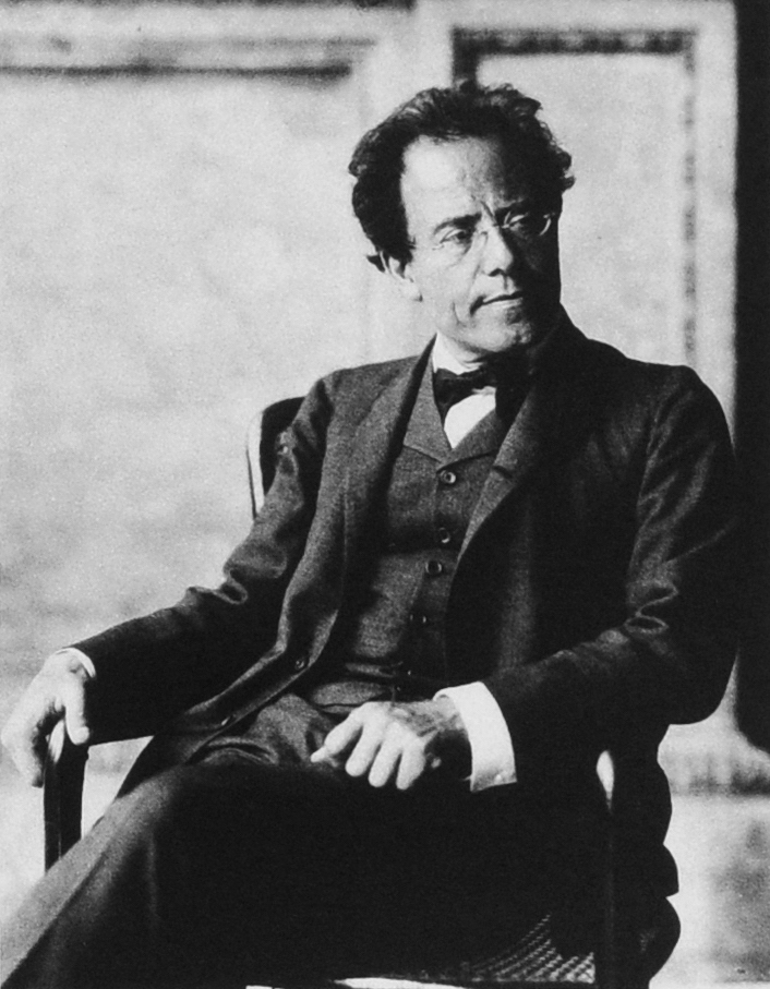 Photograph of Gustav Mahler in the Foyer of the Hofoper, Vienna; this work was published in Arnold Kruckman's "Music and Musicians" in The Burr McIntosh Monthly, Volume 15, number 59, February 1908, Burr McIntosh Pub. Co. It also appeared in "Music, Art and Drama" in The Independent, Volume 64, p. 191, January to June 1908, published in New York for the propietors by S. W. Bennett. This is a studio portrait and the photographer has set up lighting and pose; hence, it is a lichtbildwerk, photographic work (of art), subject to 70 years pma copyright protection per Austrian law.